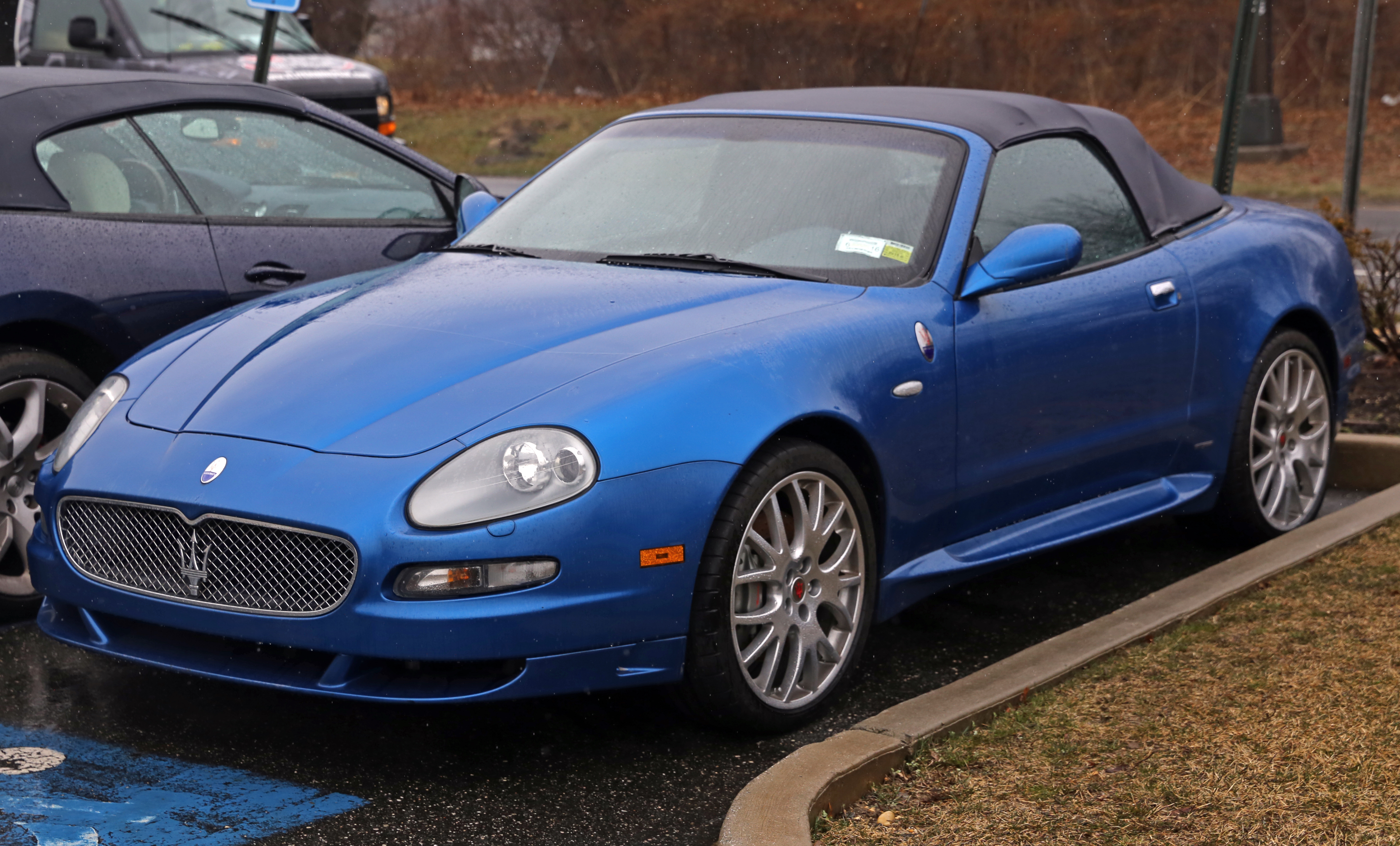 A 2005 Maserati Spyder Cambiocorsa 90th Anniversary. Ninety were built for North America and another ninety for the rest of the world. Titanium brake calipers, an oval Maserati badge, polished wheels and doorhandles as well as headlight surrounds in contrasting light grey set it apart from its lesser brethren. It also receives the mesh grille and more aggressive bumpers and sills as seen on the GranSport. Most were this Blu Anniversario, while a number were in Grigio Touring.